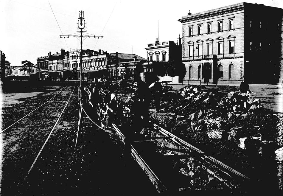 Tramway construction in Malop Street. The Bank of Australasia is in the background.